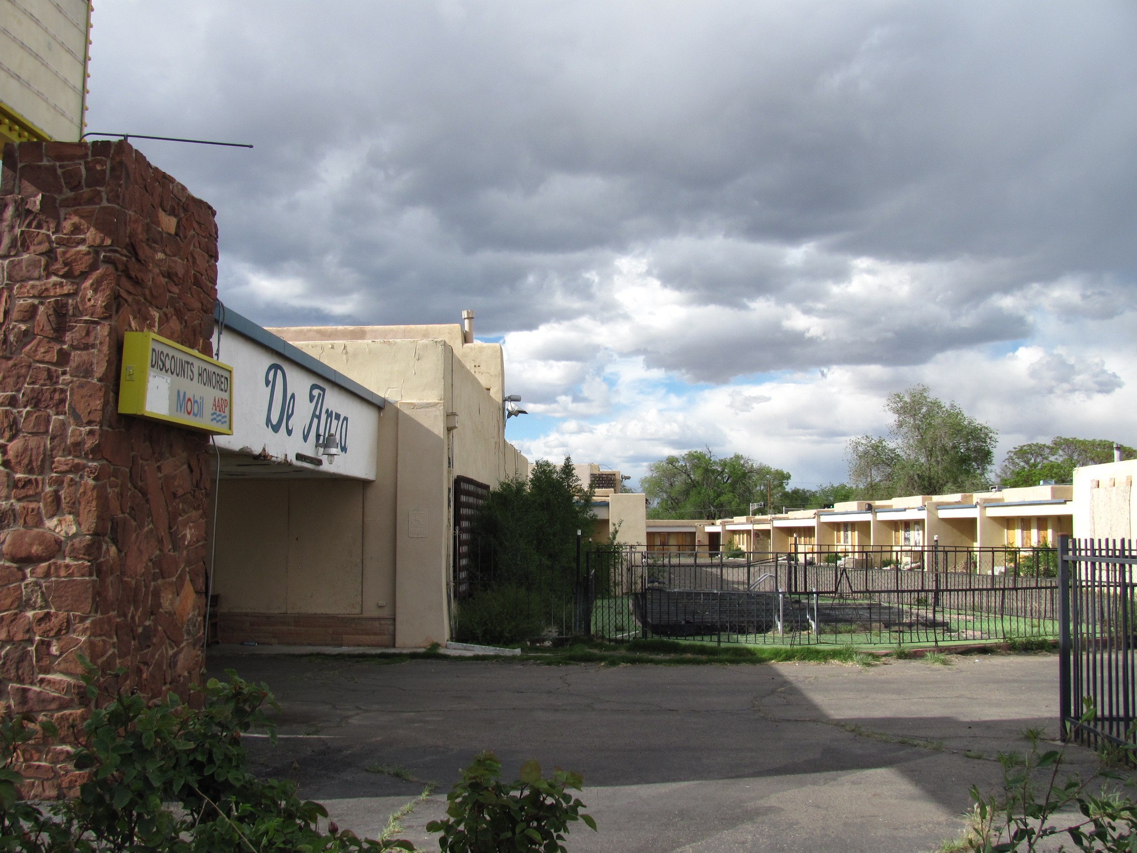 De Anza Motor Lodge, Albuquerque New Mexico